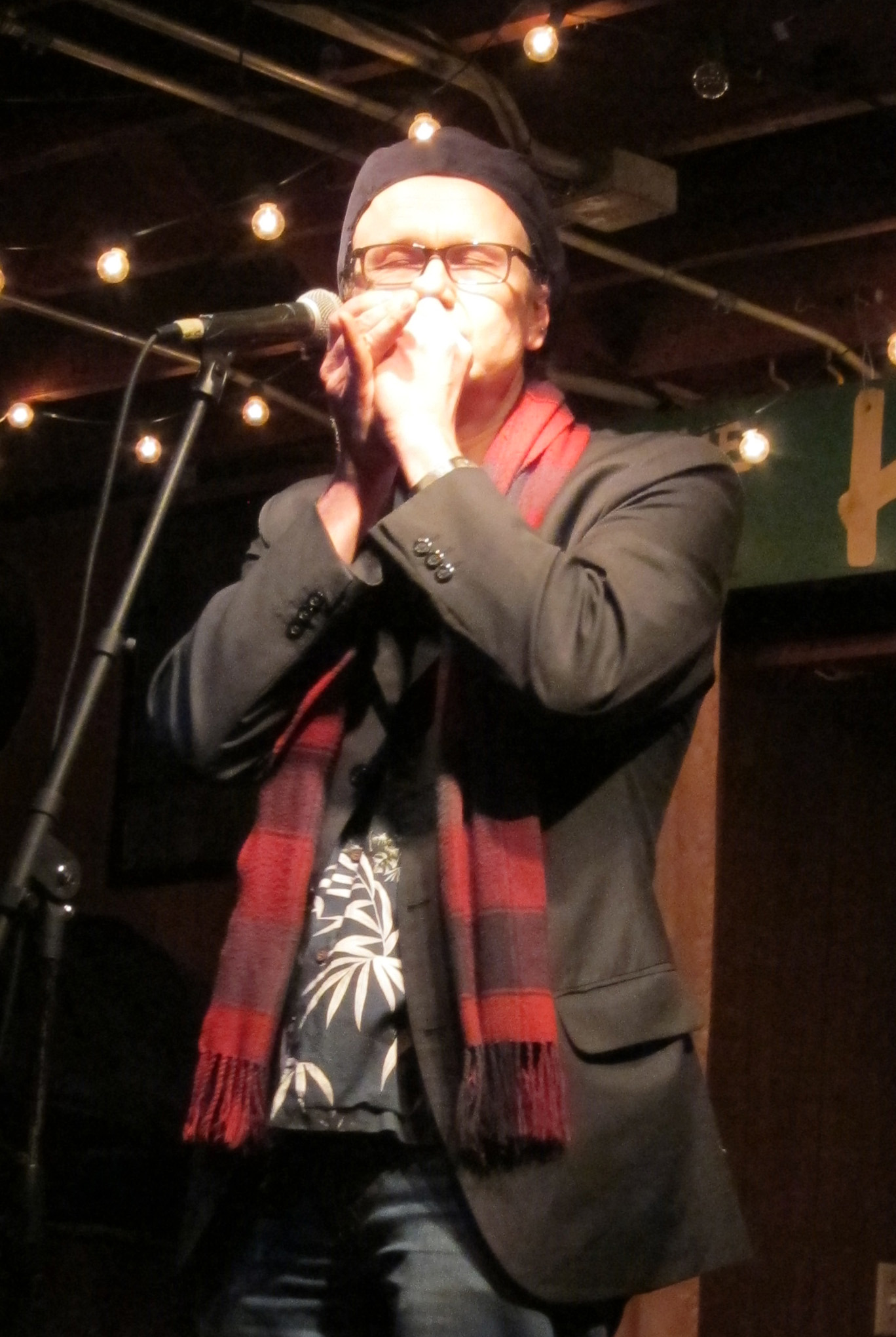 Joe Filisko playing harmonica at the 2nd annual Hohner Harmonica Hoedown at The Hideout in Chicago, IL USA.